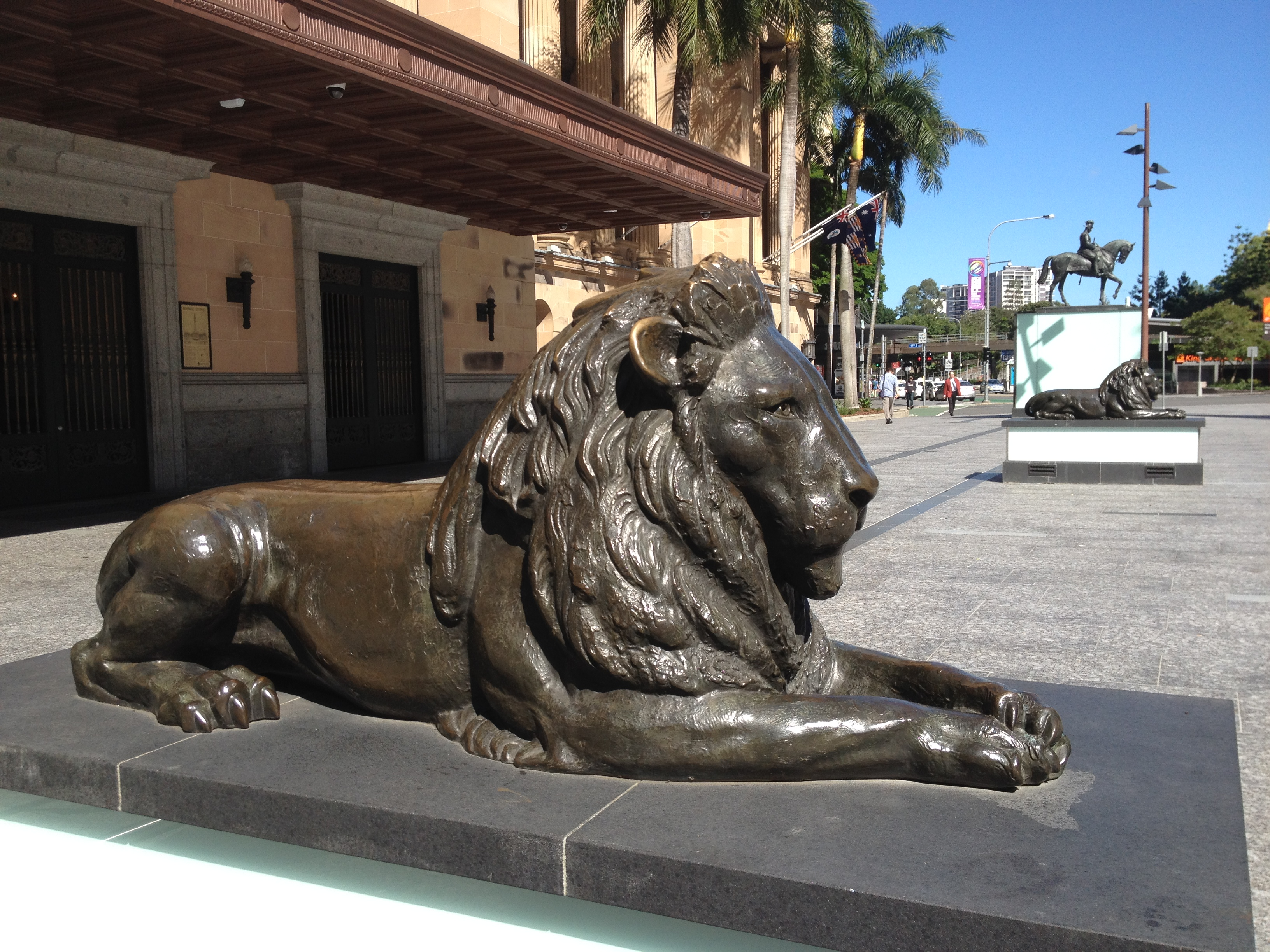 Lion sculptures in King George Square, Brisbane in 12.2013